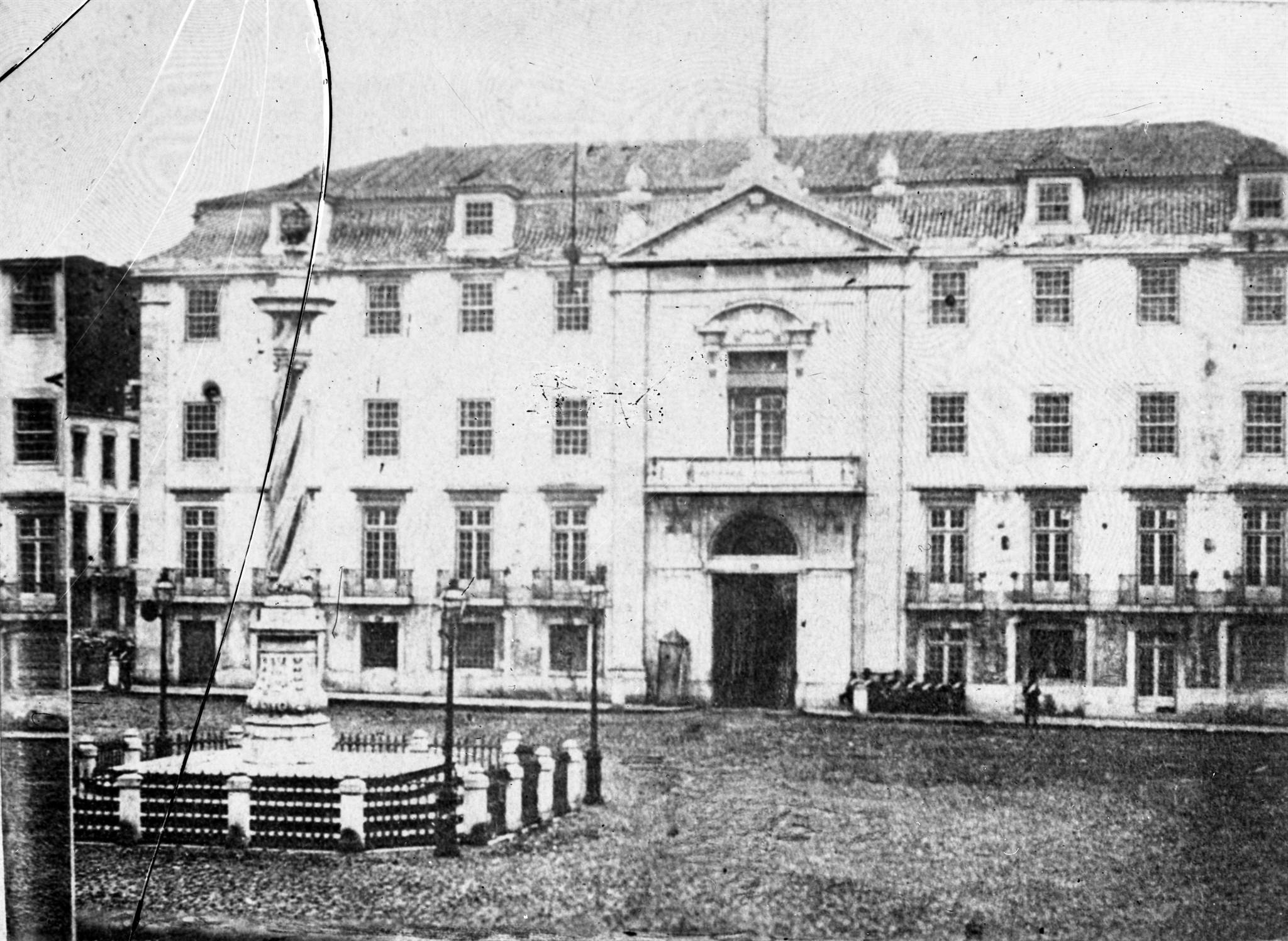 The Lisbon City Hall in the 1800s. This photo was taken before 1863, when the building was completely destroyed -- the current building was built in 1865-1880.